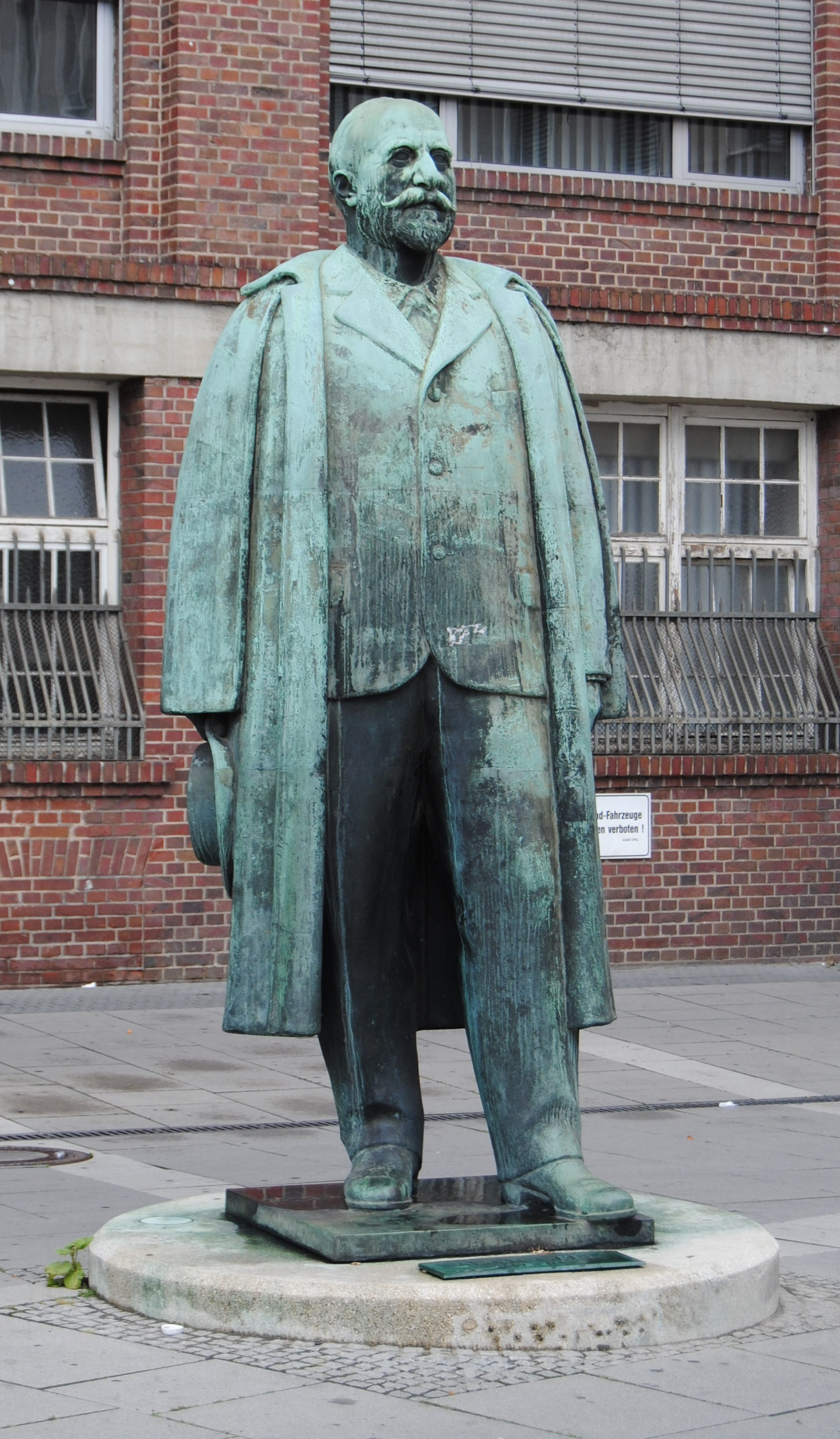 Statue of Adam Opel in Rüsselsheim (Germany).